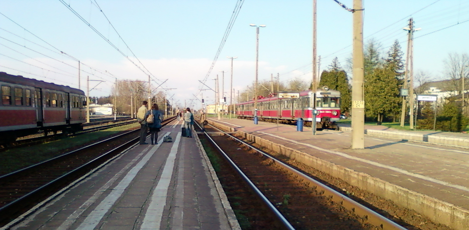 Railway station